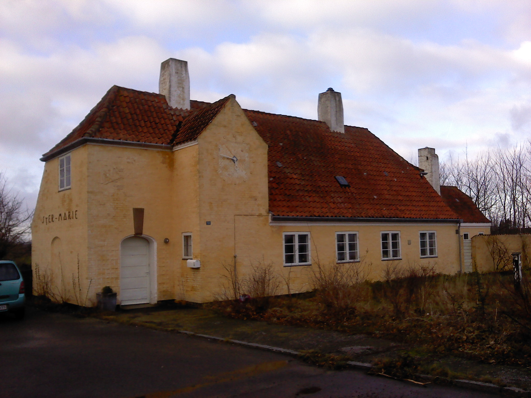 Østermarie Station